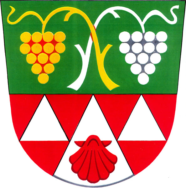 Municipal coat of arms of Želetice village, Hodonín District, Czech Republic.